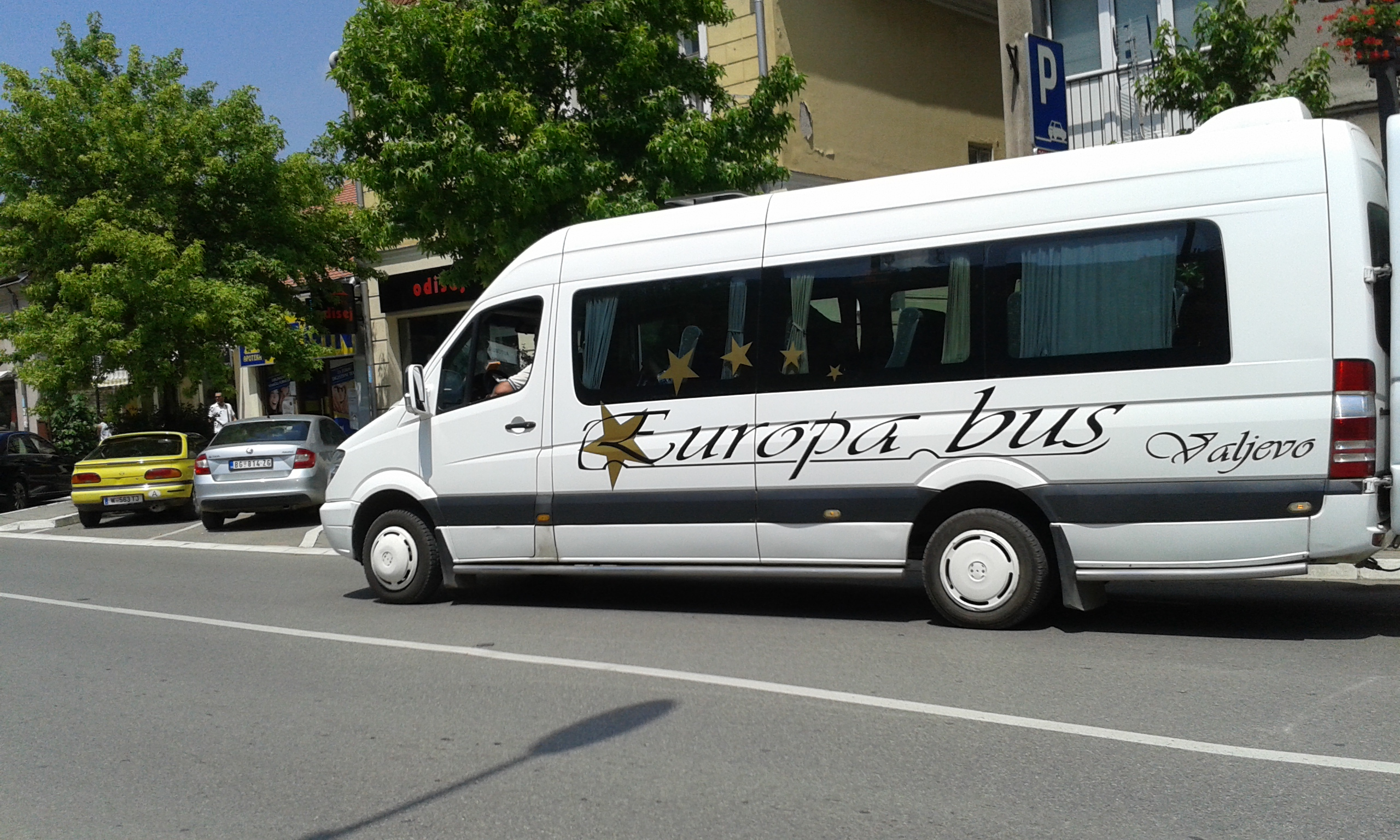 Mini bus Valjevo